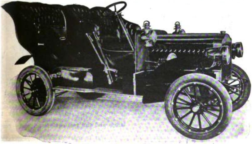 1906 Lambert model 8 automobile